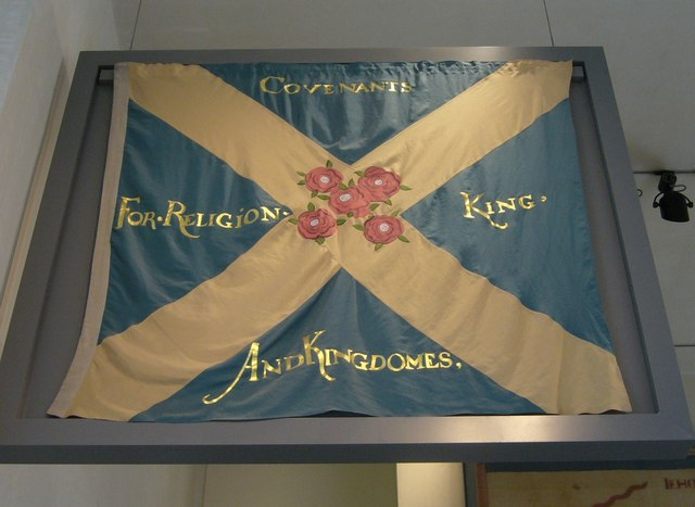 "Consider, my Lord, what glory it would be before God and man if we were to drive the Catholics out of England and follow them to France, and, in imitation of the late King of Sweden [Gustavus Adolphus], rally around us all those of the [reformed] religion in France, and plant, either with consent or by force, our religion in Paris, and thence to Rome, drive out Antichrist, and burn the town." -- Alexander Leslie, Lord General in command of the Army of the Covenant, letter to Lord Home